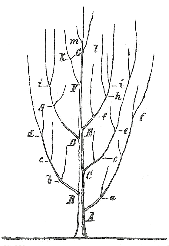 Branching tree diagram from Heinrich Georg Bronn's work, "Untersuchungen über die Entwicklungs-Gesetze der organischen Welt während der Bildungszeit unserer Erd-Oberfläche" (1858).